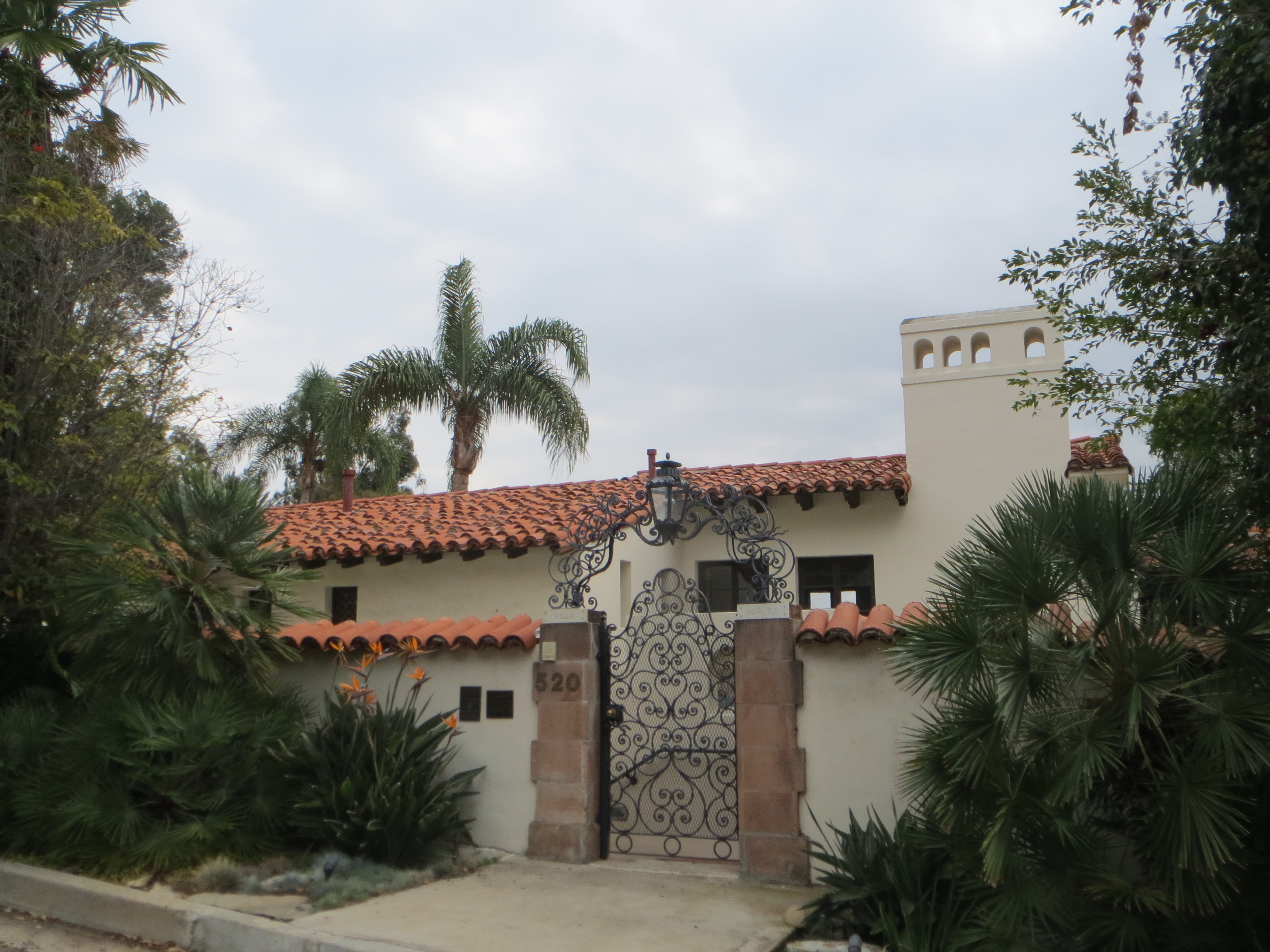 Villa Aurora (Pacific Palisades)